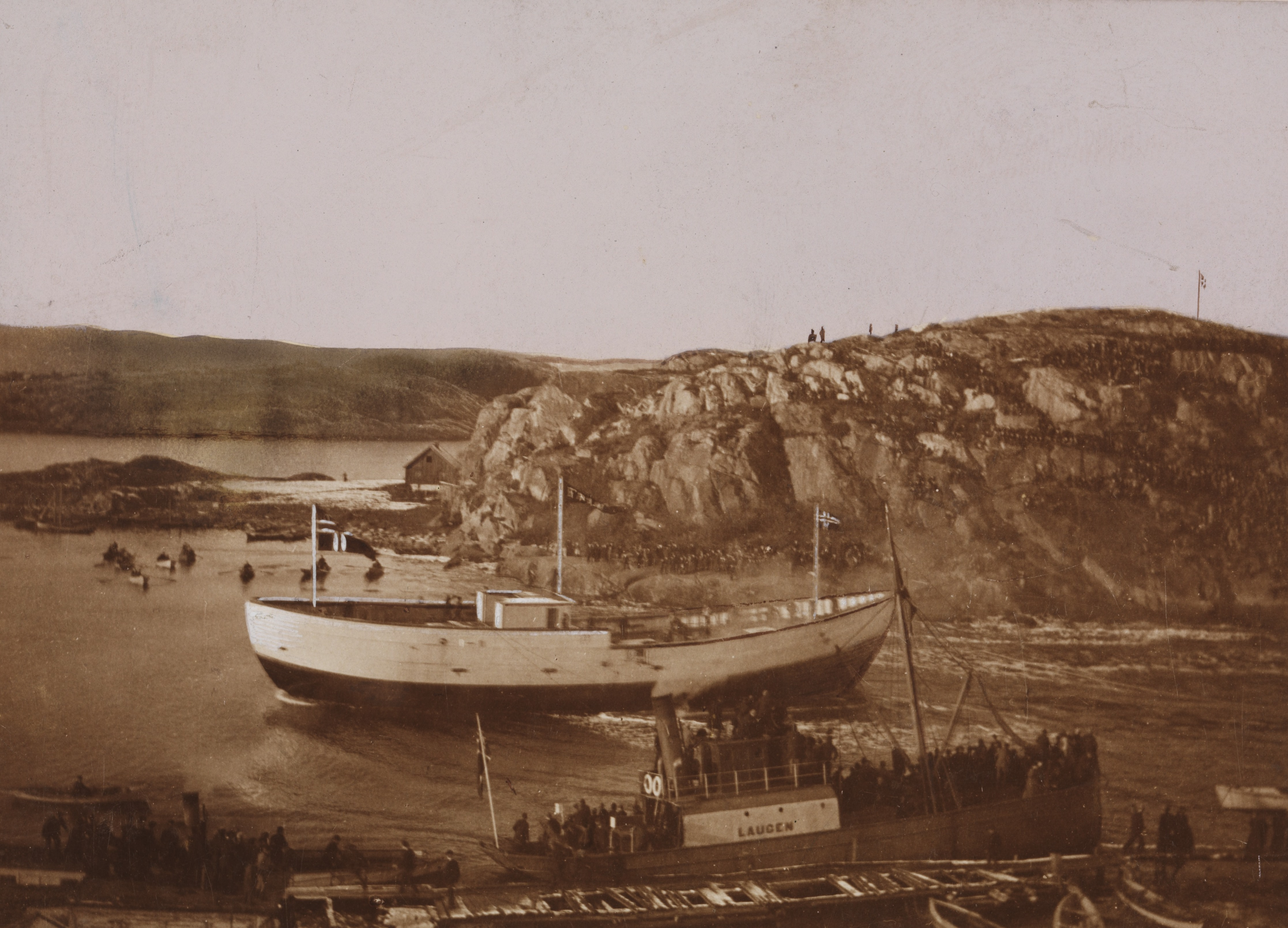 The launching of the «Fram» at Colin Archer's shipbuilding yard in Rekkevikbukta.